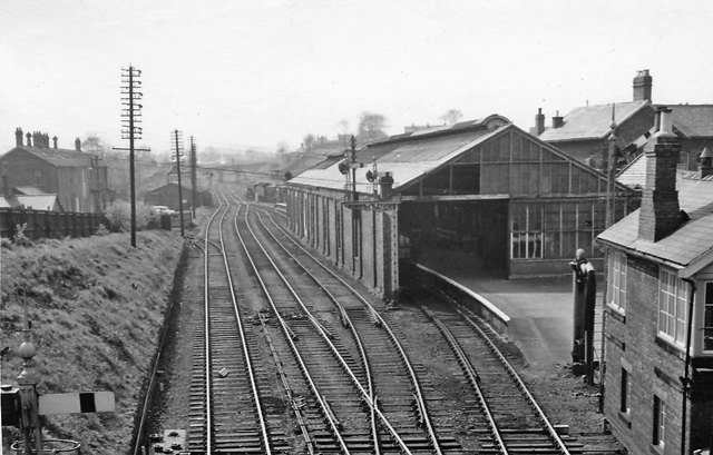 Bishop Auckland Station. View westward; important junction with triangular station, closed 6/6/86 and replaced by a terminal platform just for the service from Darlington. Lines used to run eastward to Stockton via Simpasture and Stillington (goods only, closed 22/6/83), southward to Barnard Castle (closed 18/6/62) and Ferryhill via Spennymoor (closed to Spennymoor 4/12/39, Ferryhill 31/3/52 (goods 2/5/66); westwards to Wearhead (closed to passengers 29/6/53, to Etherley 3/65), goods (to Eastgate) 1992, northwards to Consett and Newcastle via Swalwell (passengers until 5/39, cut back to Tow Law 11/6/56, then Crook (8/3/65), and to Durham via Relly Mill Junction (closed to passengers 4/5/64, goods 5/8/68).